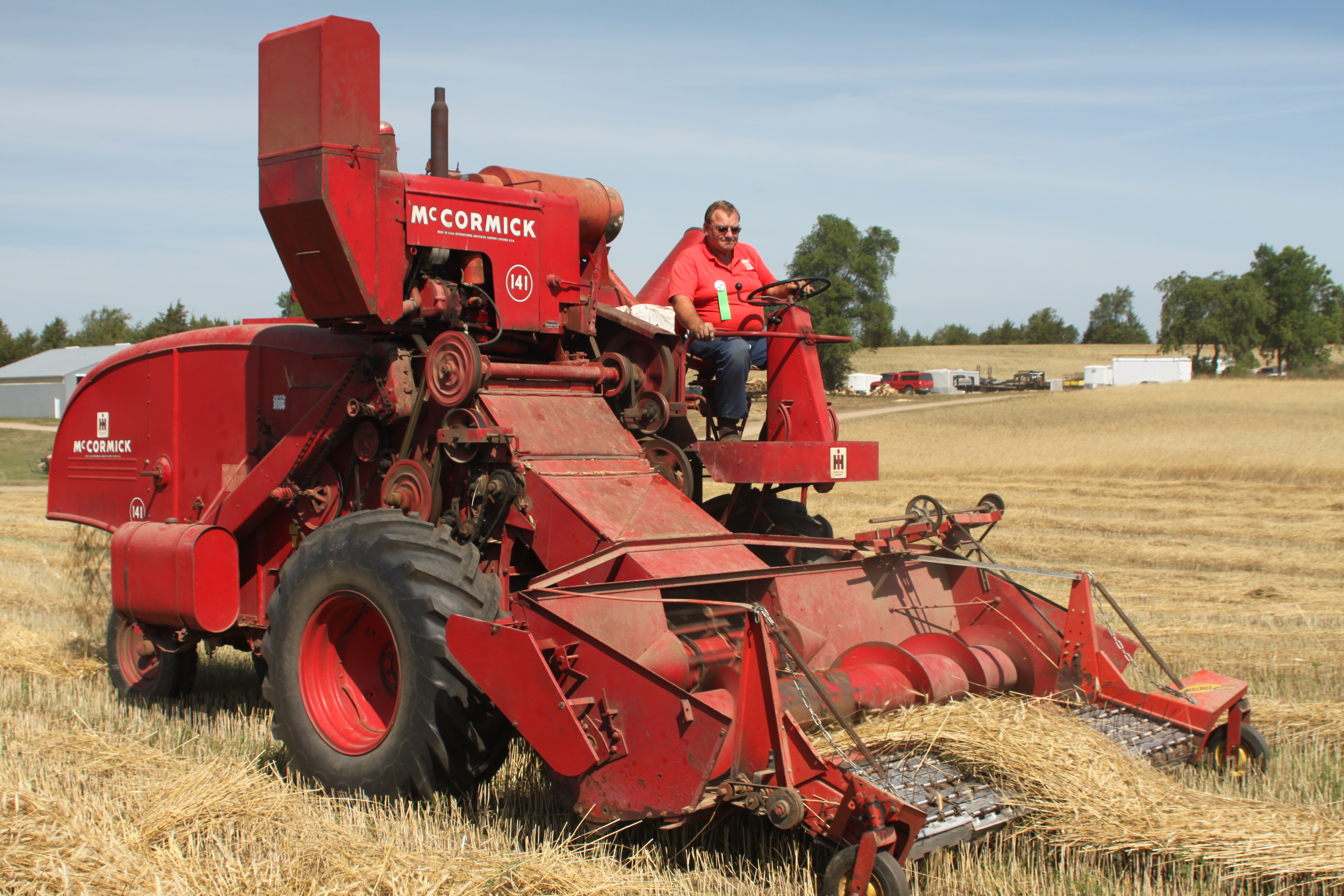 International Harvester McCormick 141 combine in action